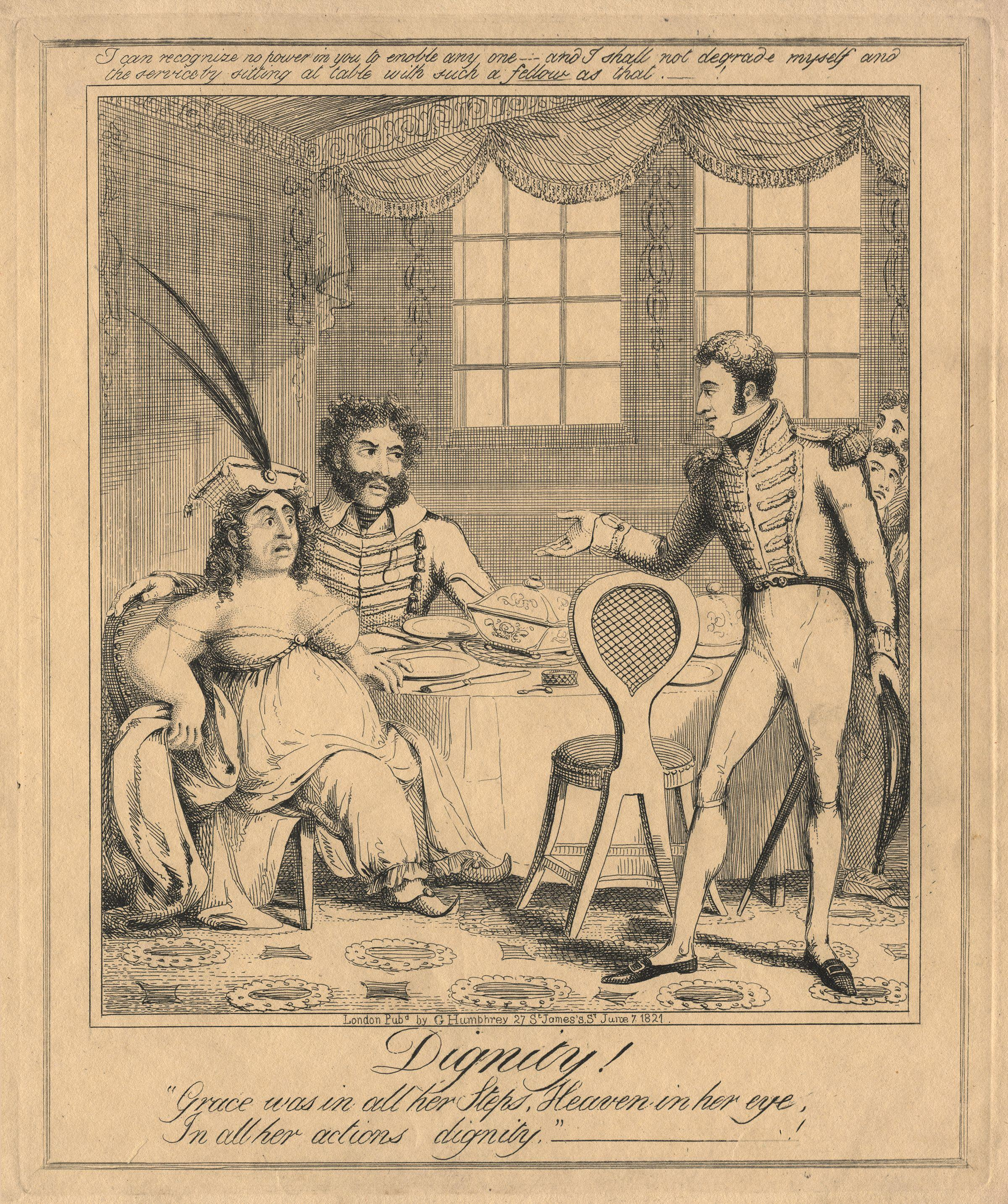 Dignity! (Caroline Amelia Elizabeth of Brunswick; Bartolomeo Pergami; probably Sir Samuel John Brooke Pechell, 3rd Bt), by George Humphrey (floruit 1831), published 1821. According to the NPG's website the work was published prior to 1859, and so the author is reasonably presumed dead by 1939.